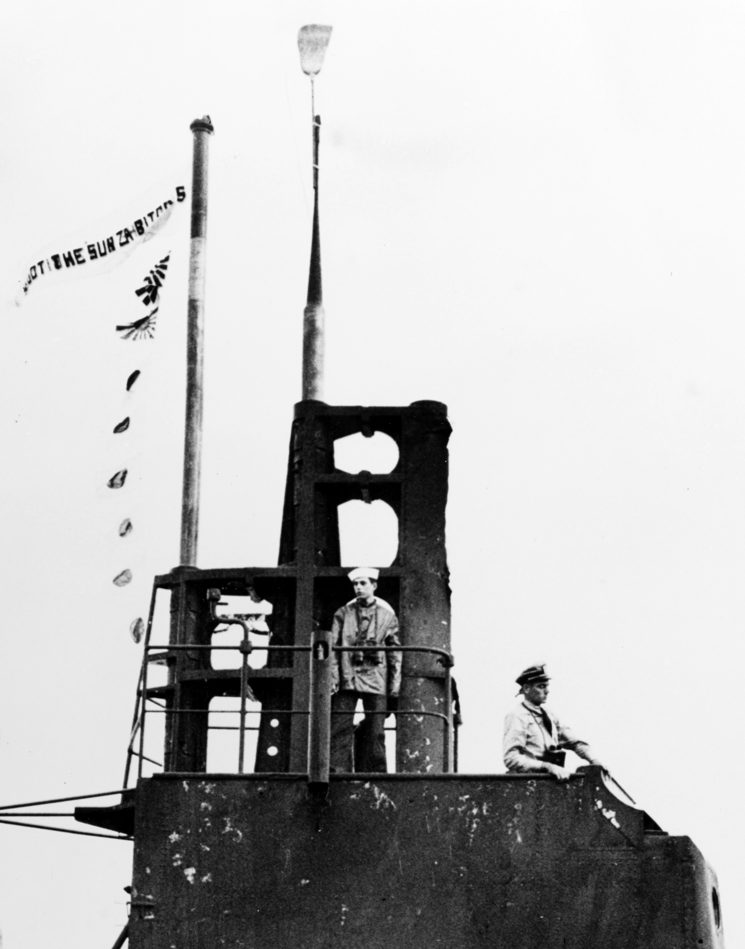 The U.S. Navy submarine USS Wahoo (SS-238) at Pearl Harbor, Hawaii (USA), soon after the end of her third war patrol, circa 7 February 1943. Her Commanding Officer, Lieutenant Commander Dudley W. Morton, is on the open bridge, in right center. Note: the broom lashed to the periscope head, indicating a clean sweep of enemy targets encountered; the pennant bearing the slogan "Shoot the sunza bitches" and eight small flags, representing claimed sinkings of two Japanese warships and six merchant vessels. Note that the forward radar mast, mounted in front of the periscope shears, has been censored out of this photograph.